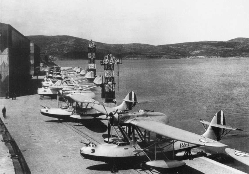 Catalog #: 00076600 Manufacturer: CANT (C.R.D.A.) Designation: Z 501